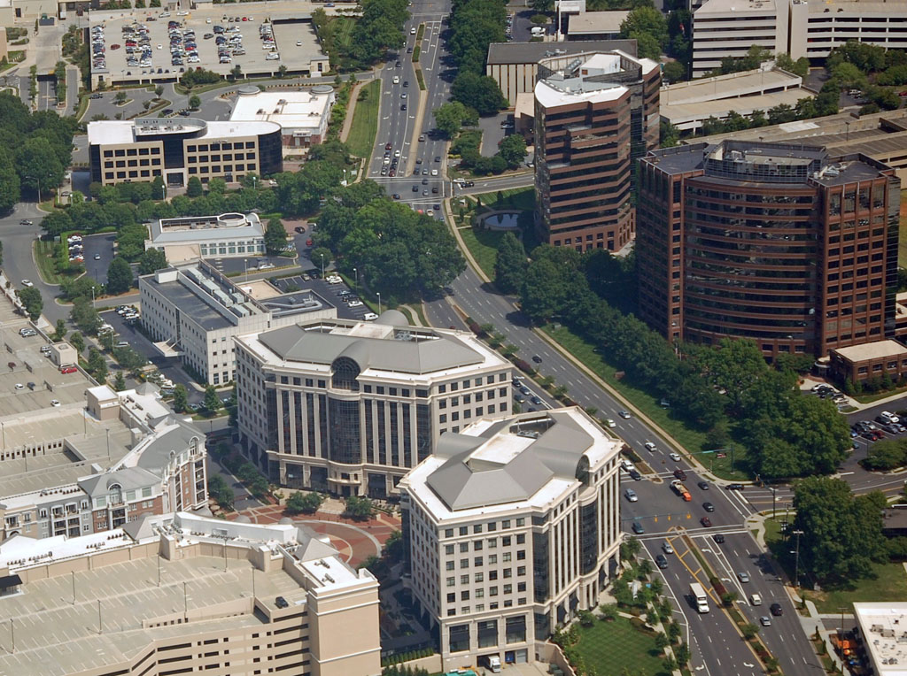 Aerial view of the Southpark neighborhood of Charlotte, NC. View is looking East along Fairview Rd.